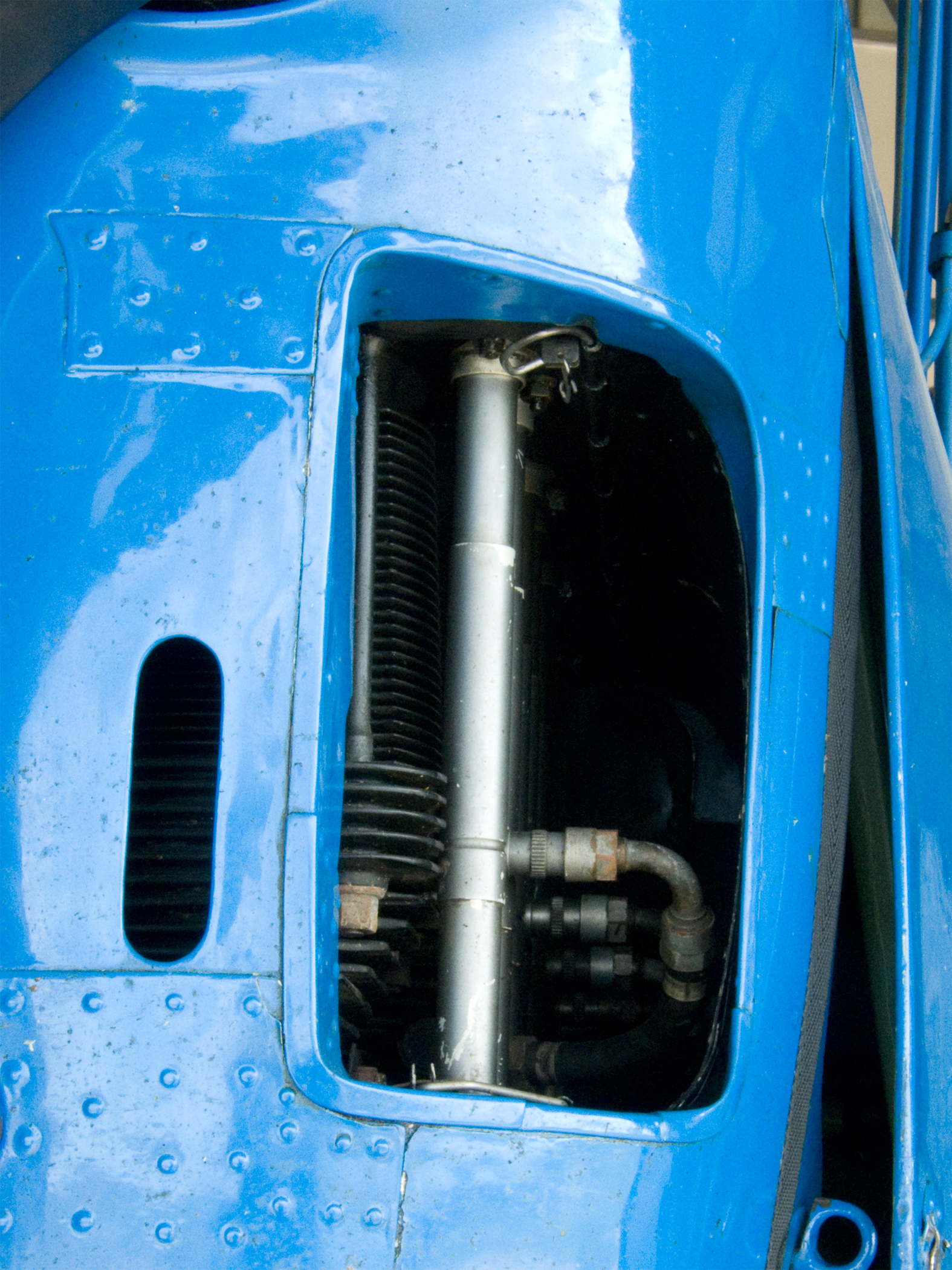 Air intake detail for the air cooled Gipsy Major engine on aTiger Moth aircraft